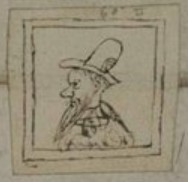 1574 drawing of Irish chieftain Turlough Luineach O'Neill